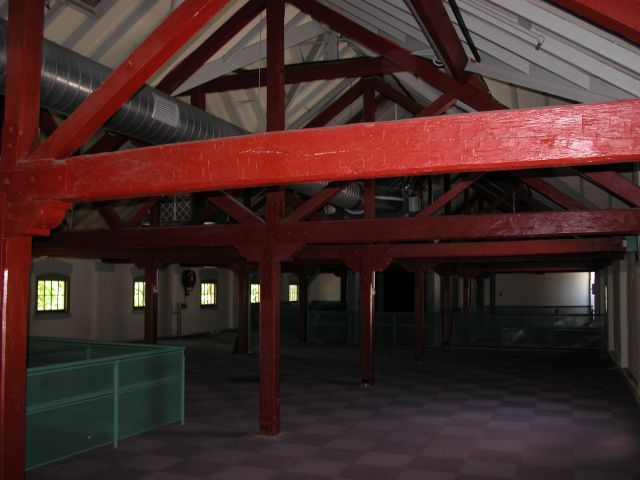 Castlemaine Brewery